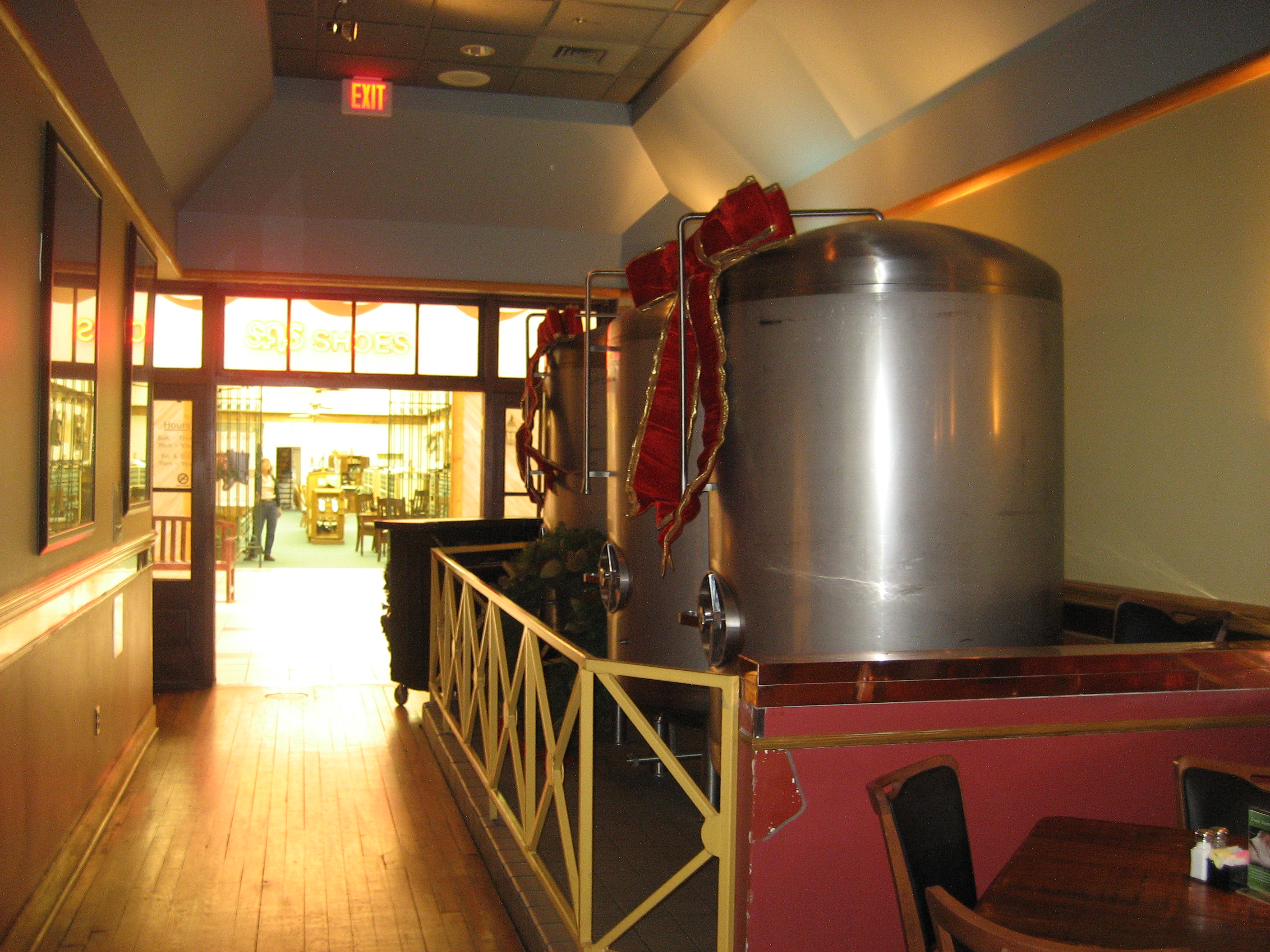 Metairie, Louisiana. Beer brewing tanks at microbrewery & restaurant "Zea" in the Clearview Mall.